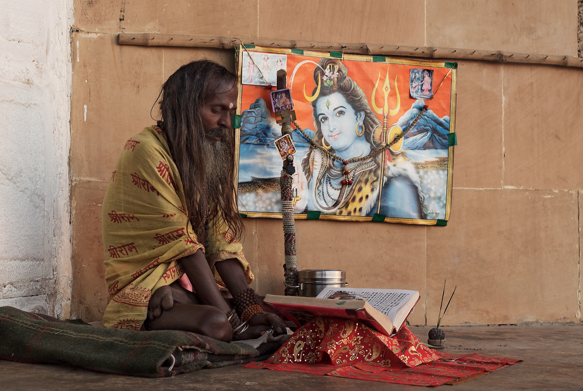 A Sadhu and a picture of Siva in Kayasth Tola, Varanasi, Uttar Pradesh in Northern India